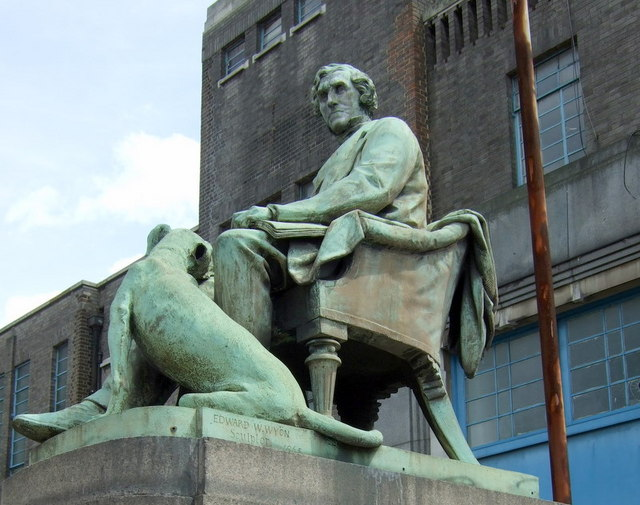 Richard Green and his one-eared dog. Richard Green, see 863562, is shown with his Newfoundland dog, Hector, at his feet. Close examination reveals that part of Hector's right ear is missing. In 1967, when the public baths, in front of which the statue is located, were still in use, according to a newspaper report "[10 year old Patrick Heneghan] hit the headlines when a trip to the swimming baths ended with him being trapped by a dog. Patrick's friends had thrown his swimming trunks onto the statue. He climbed up to rescue them and his leg became trapped between the stone dog and the ship owner. Firemen were called to the scene but they couldn't budge Patrick, then of Huddart Street, Bow. He was finally freed after firemen cut an ear off the dog." (It should be noted that the statue is in fact made of bronze, not stone.)